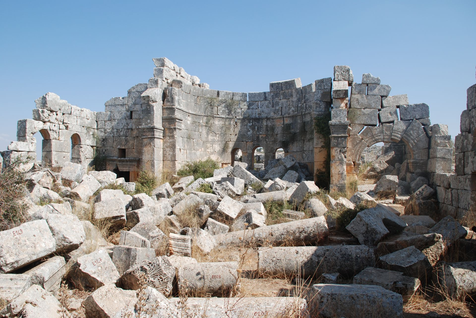 Deir Seman, near Church of Saint Simeon Stylites, Syria, north church